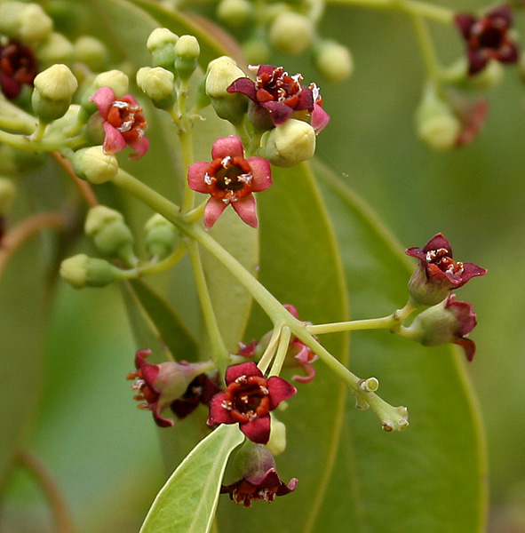 White or East Indian Sandalwood or Chandan Santalum album in Hyderabad , India.